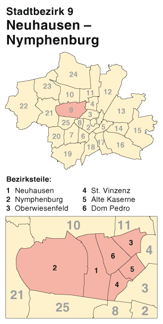 Boroughs of Munich map series